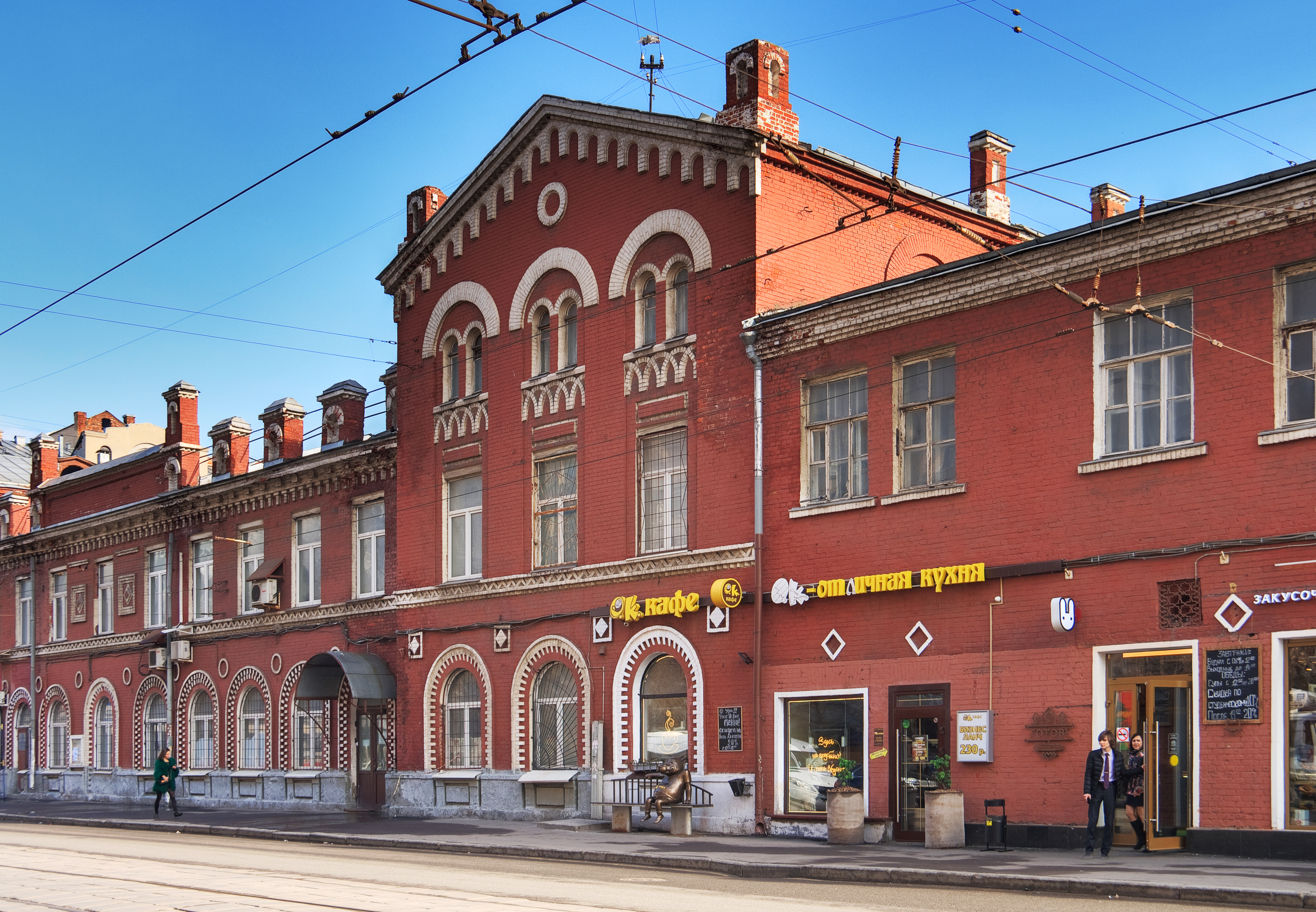 Miusskoe Tram Depot, Lesnaya Street 20, Moscow